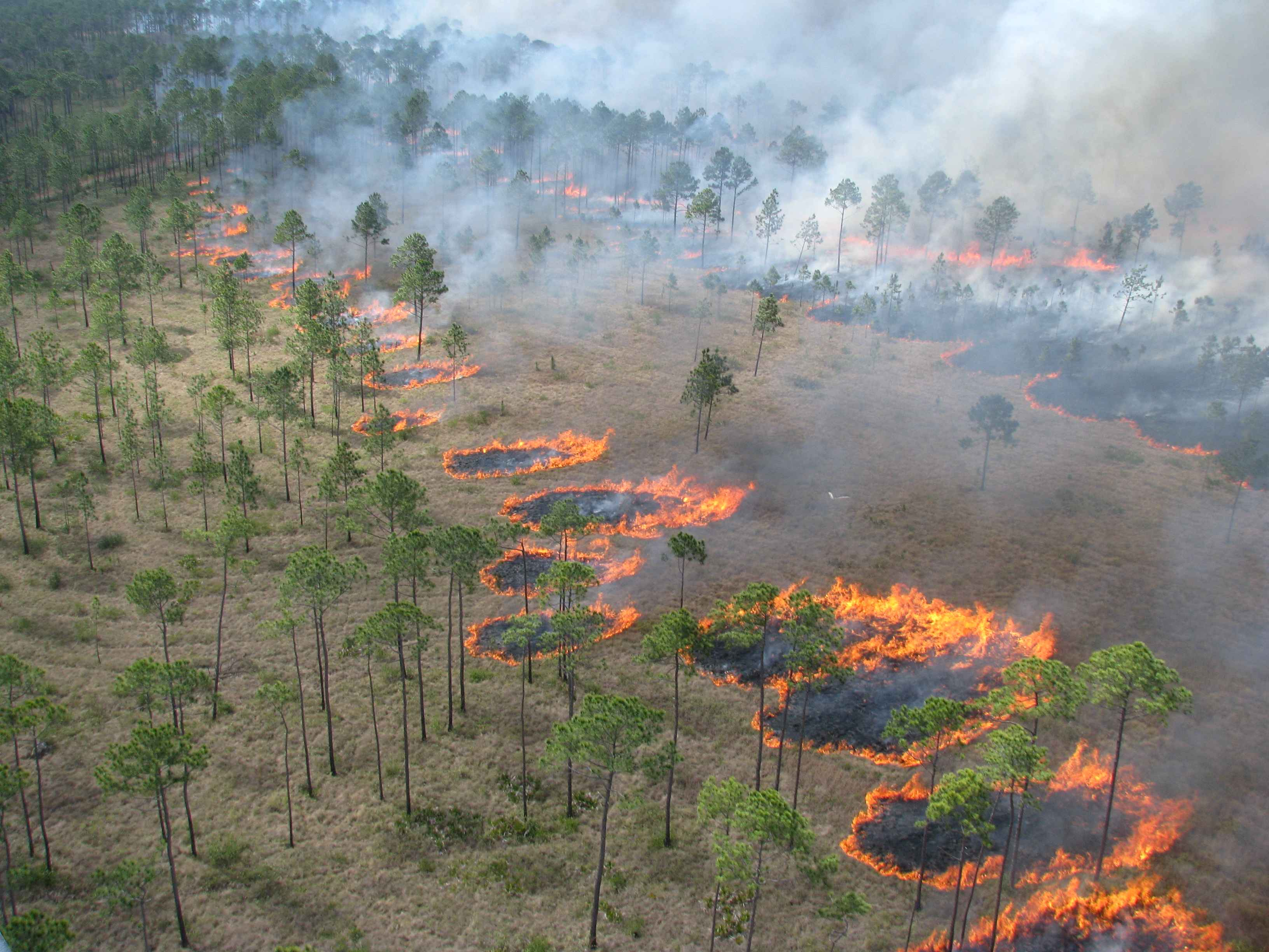 Image title: Aerial ignition interior high rates of spread in open savannas Image from Public domain images website